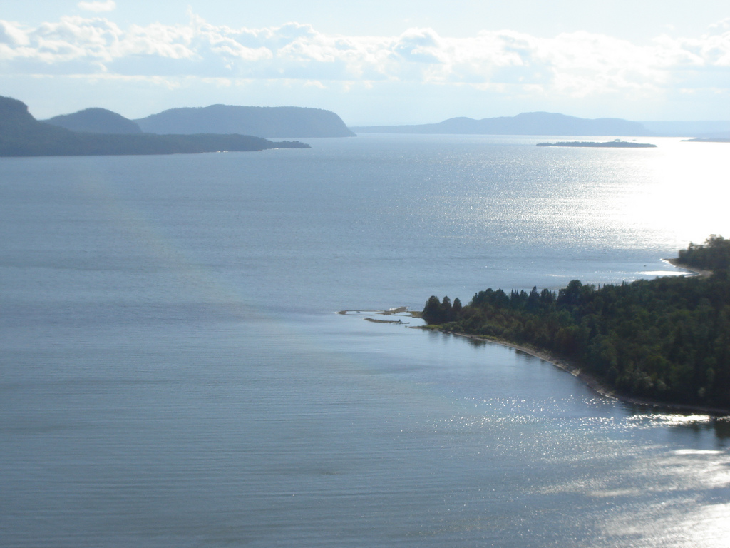 Part of Nipigon Bay, a mouth of Nipigon River, along the north shore of Superior